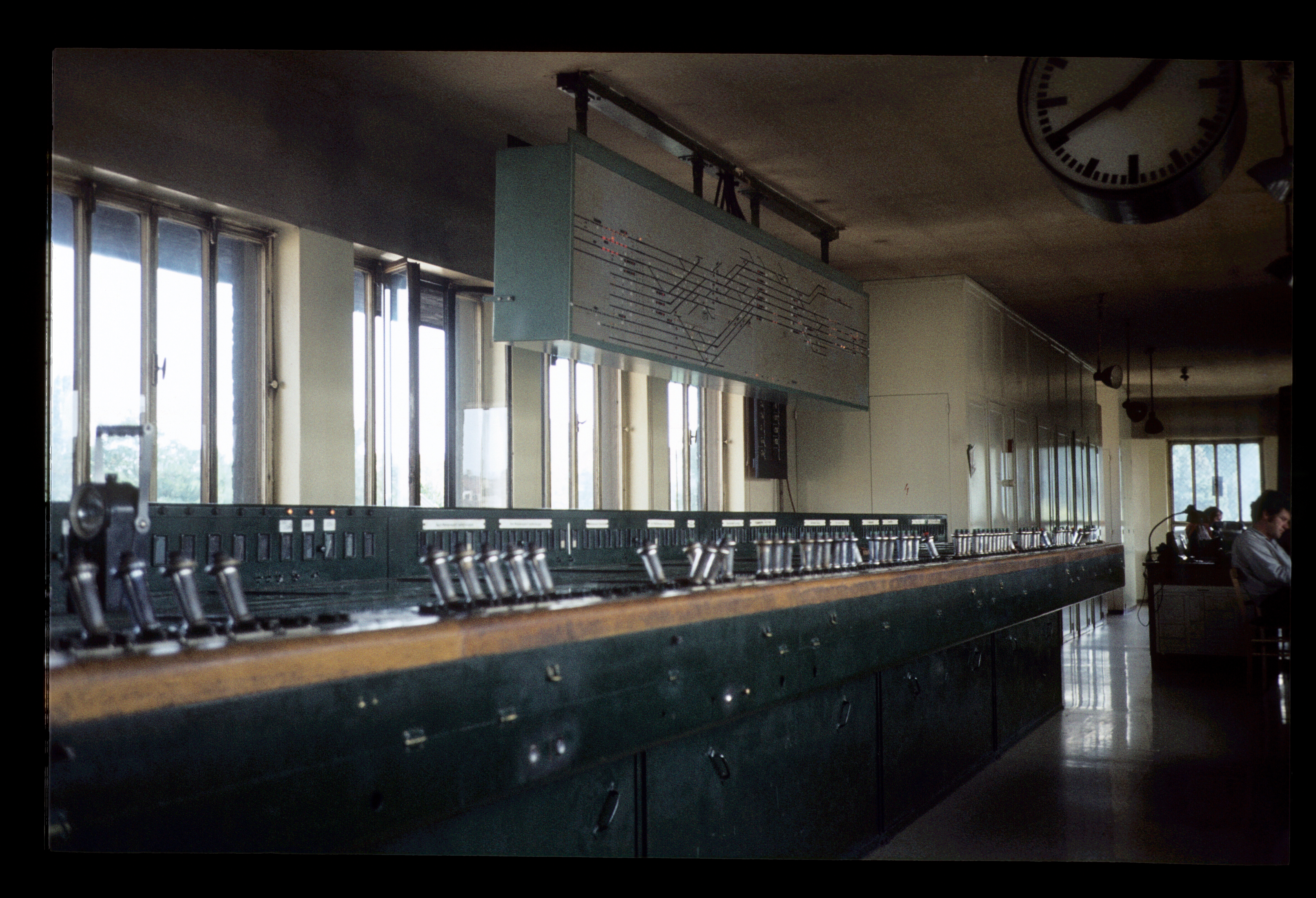 Interior of the railway control centre at Meidling, Wien (Vienna), Austria, showing a Siemens type 42733 interlocking.